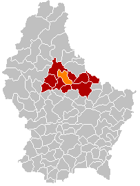 Own edit of Kanton DiekirchLocatie.png